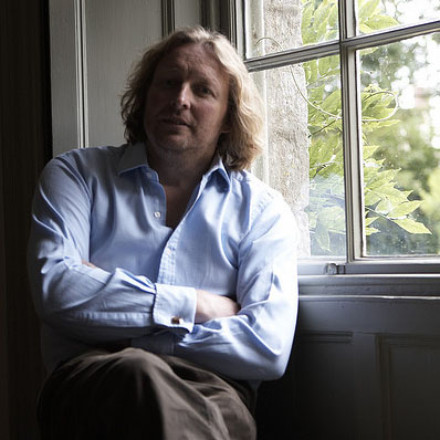 A portrait of the designer, Perry Haydn Taylor